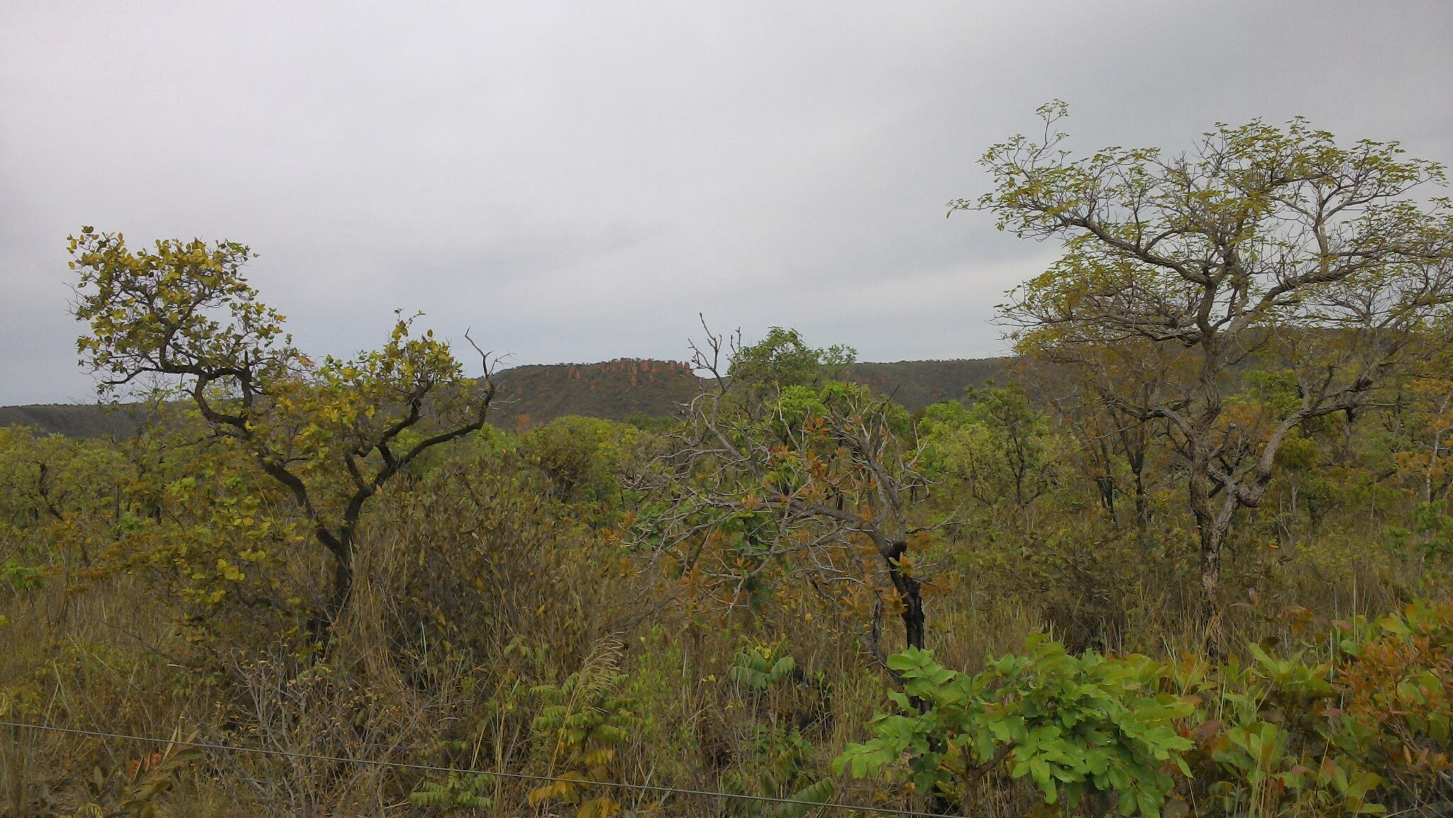 Montalvânia - State of Minas Gerais, Brazil